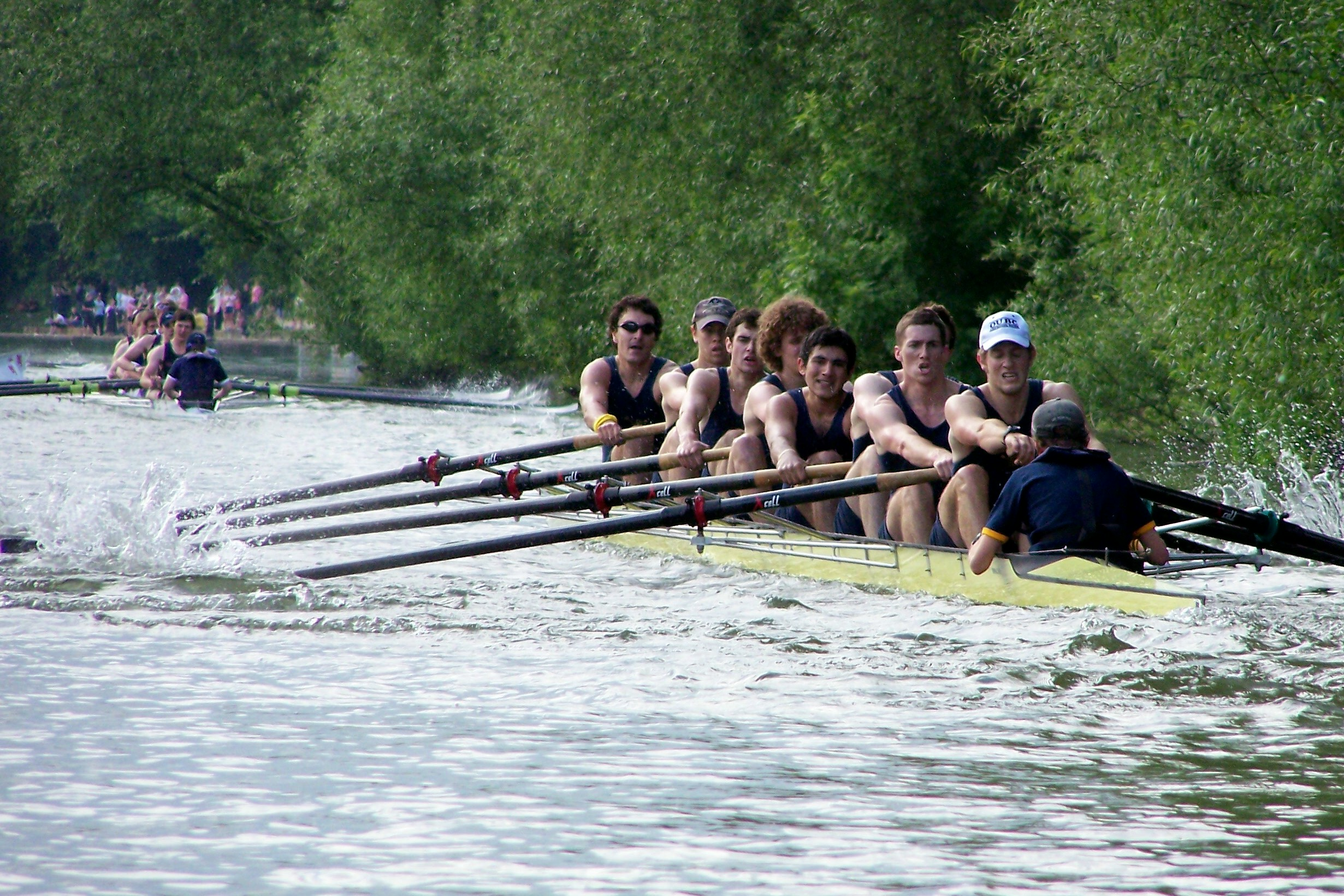 Description: Acer Nethercott steering University College during Oxford University's annual Summer Eights. Copyright: Victoria Dare/Christ Church Boat Club